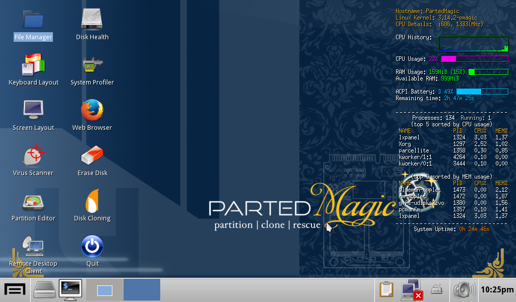 Desktop Screenshot of the Parted Magic LiveCD